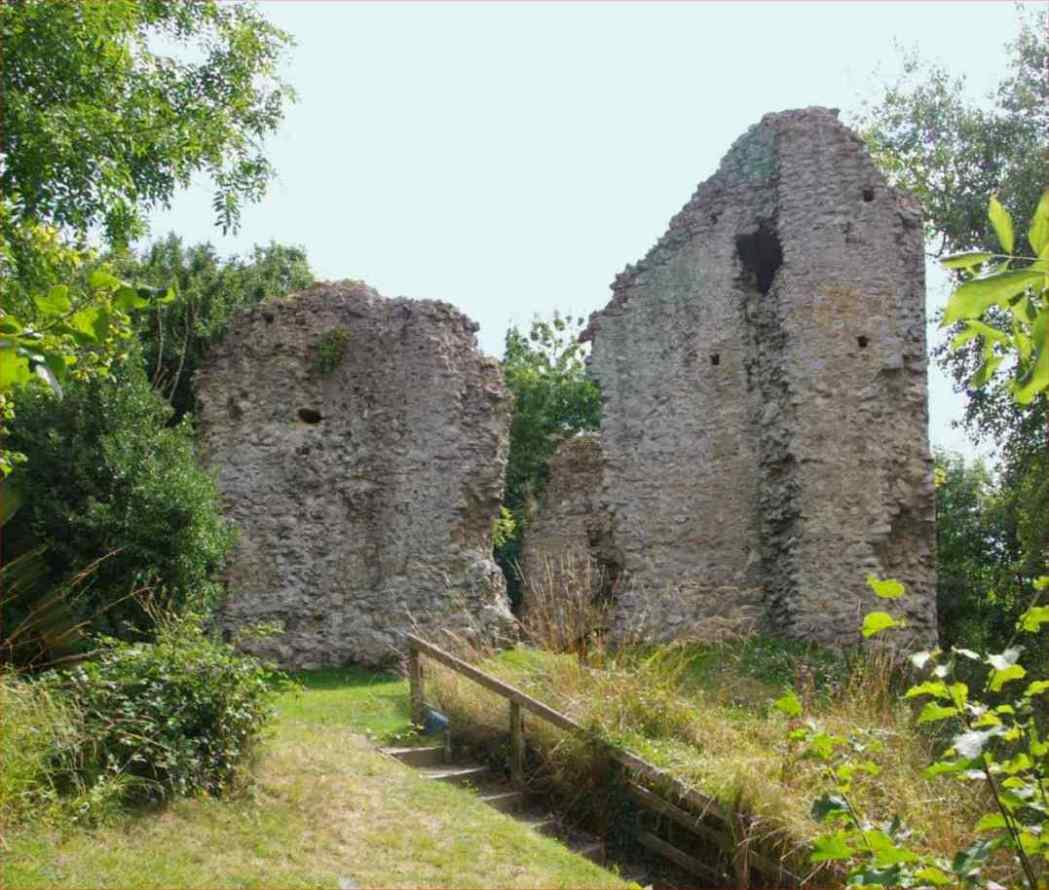 Remains of Sutton Valence Castle, E side of Sutton Valence Village, near Maidstone, Kent, England